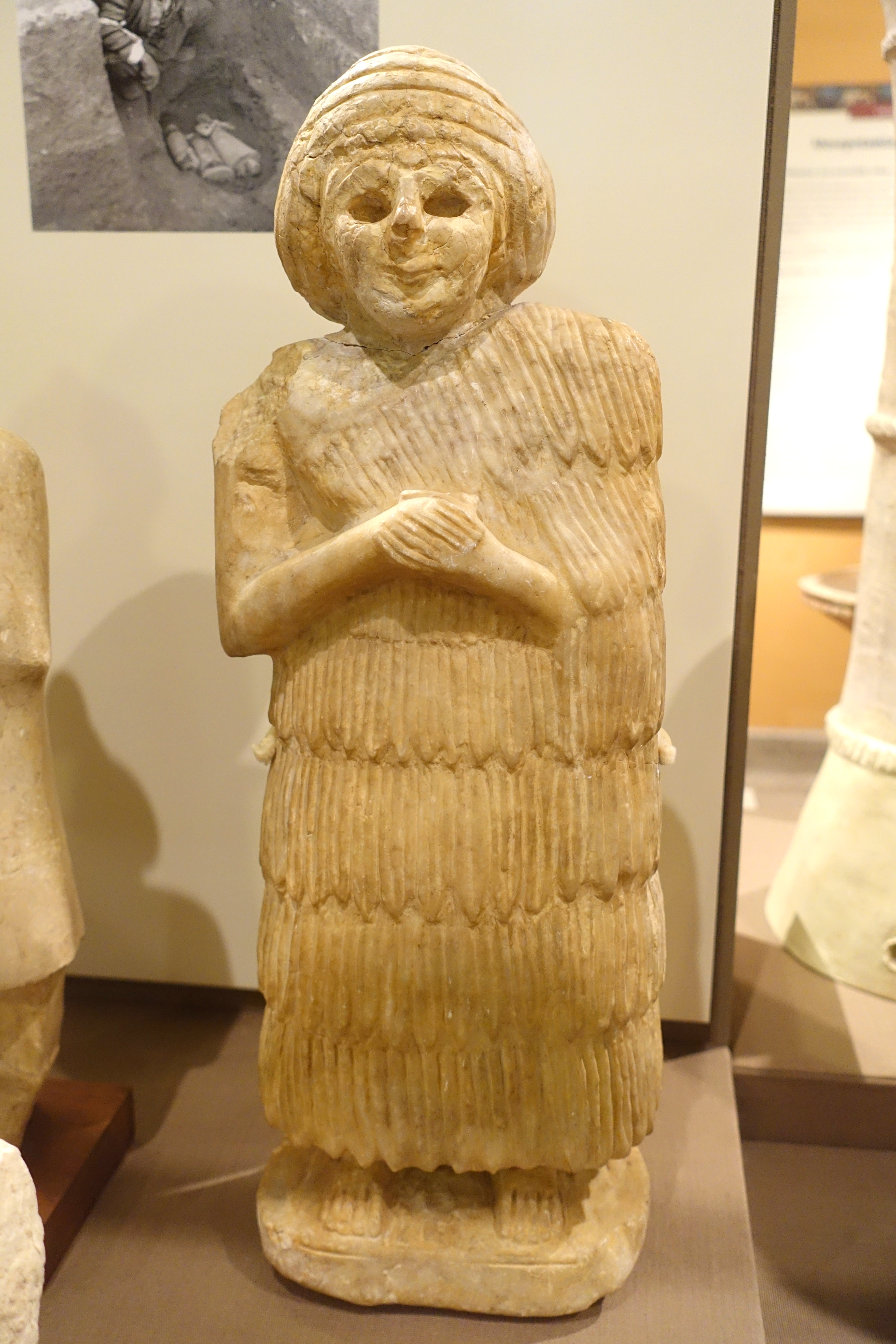 Exhibit in the Oriental Institute Museum, University of Chicago, Chicago, Illinois, USA. This work is old enough so that it is in the public domain.